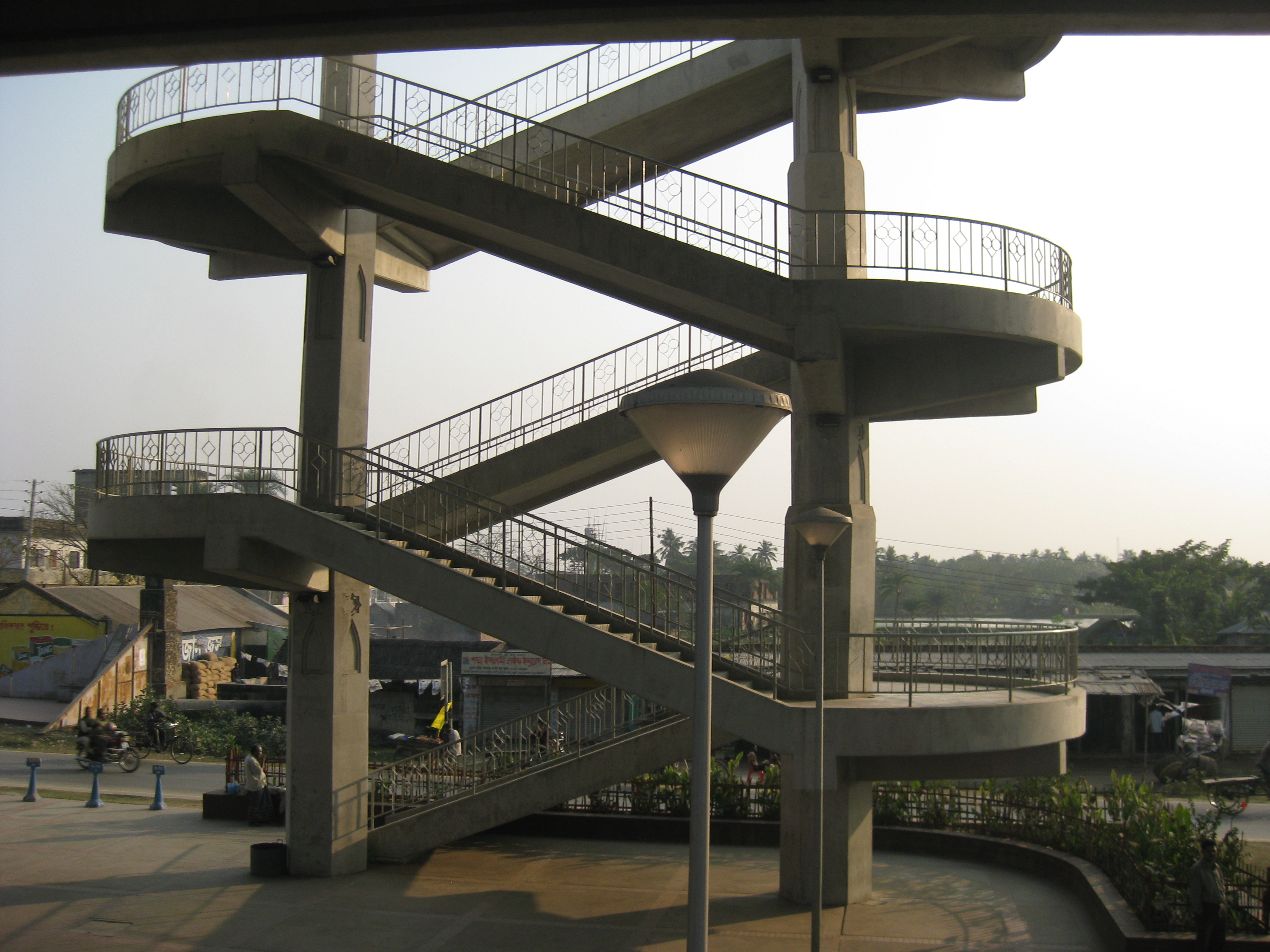 Rupsha Bridge at the Rupsha River in Khulna.